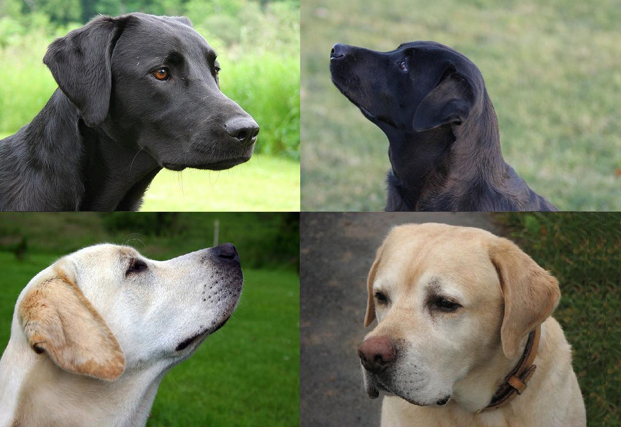 Collage of American (left) and English Labrador Retriever head appearances.